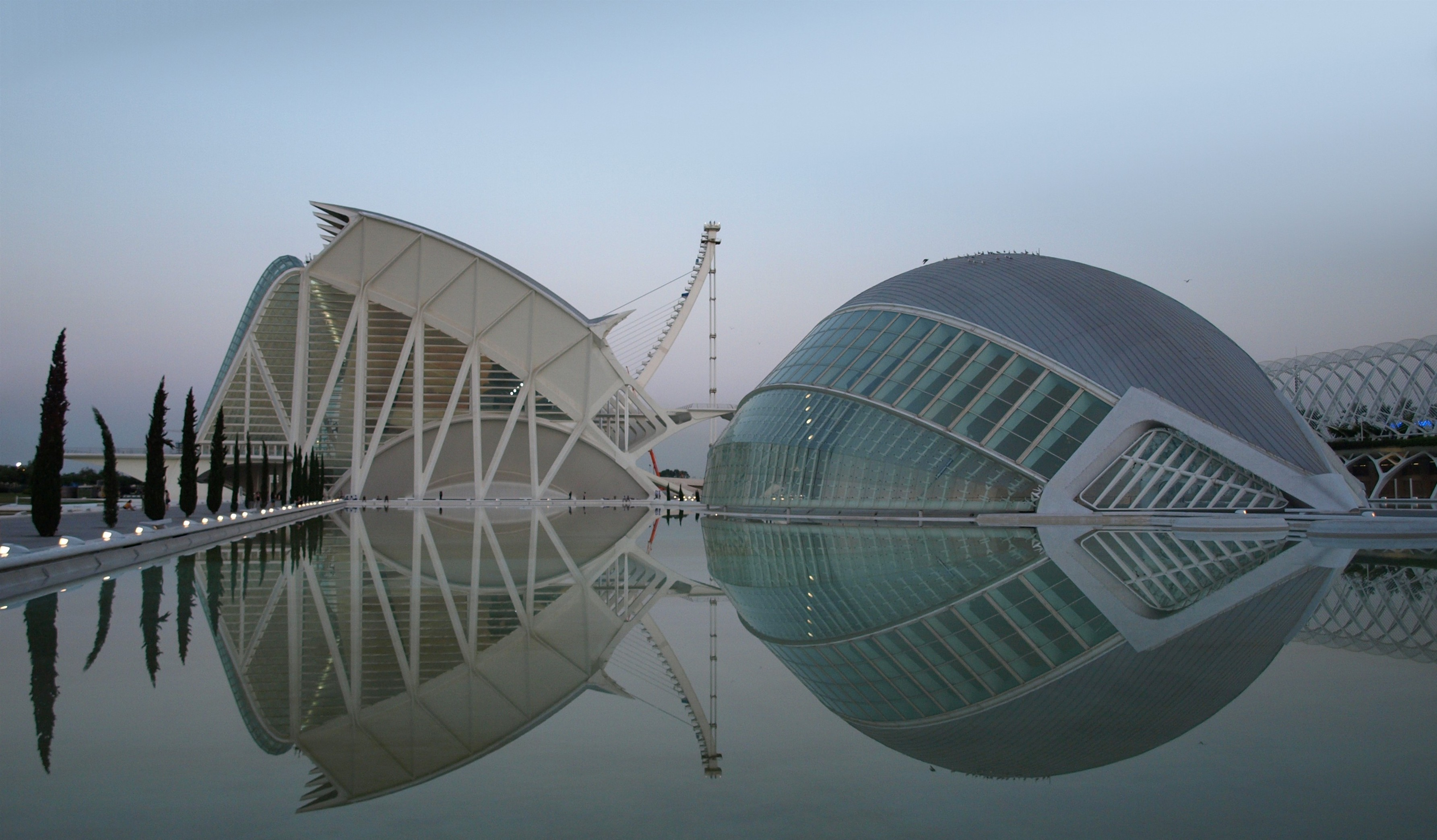 Dusk over the Ciudad de las artes y las ciencias in Valencia (Spain) with a front view of the Museo de las Ciencias Príncipe Felipe and the L'Hemisfèric.